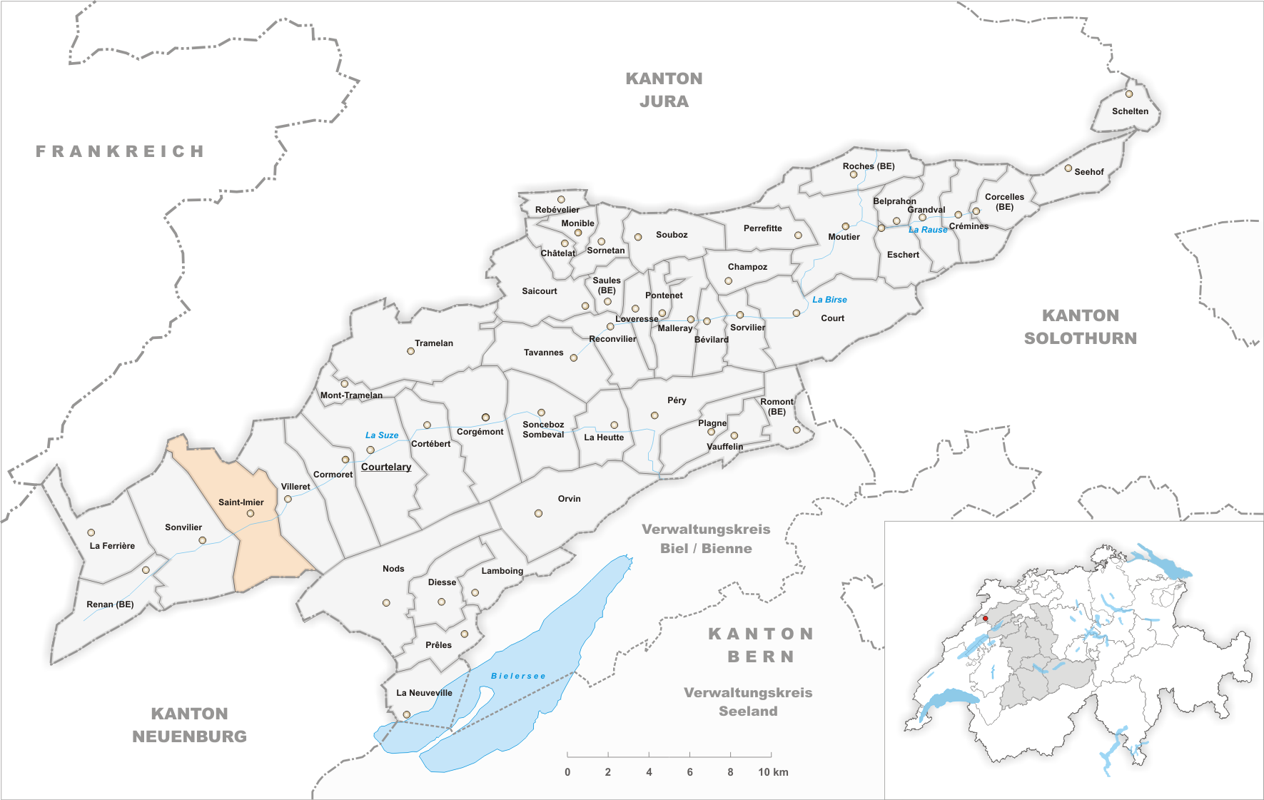 Municipality Saint-Imier